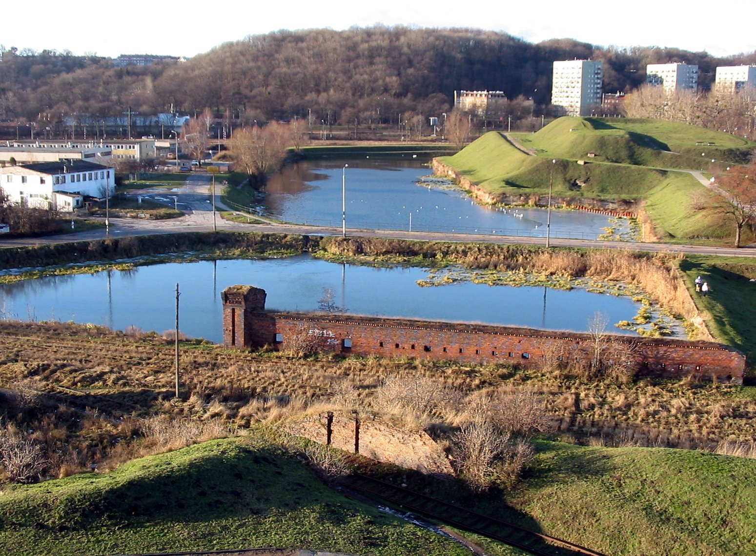 Bastion "Żubr" (1623) in Gdańsk, Poland.